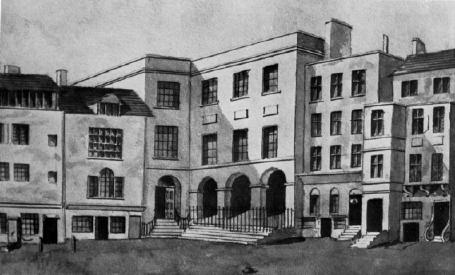 Wash drawng by an unknown artist of the Great Synagogue at Duke's Place, London, early 19th century